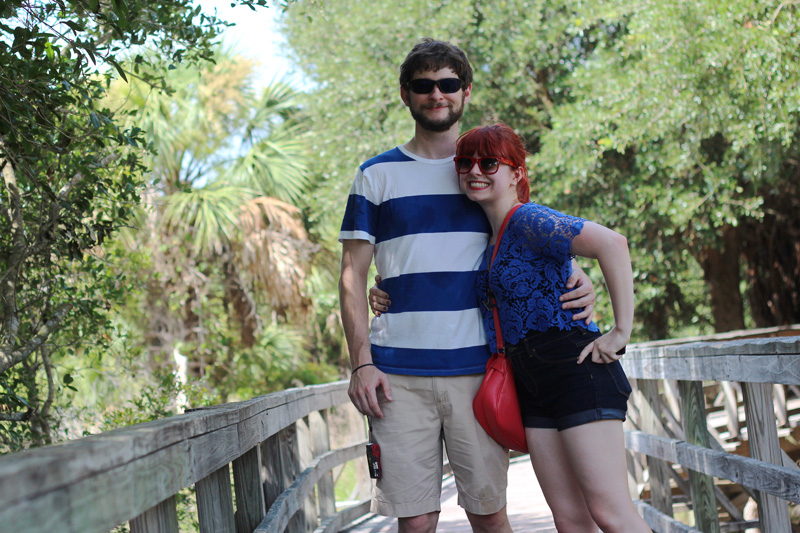 Petite Panoply: Trip to Cumberland Island, Georgia Model